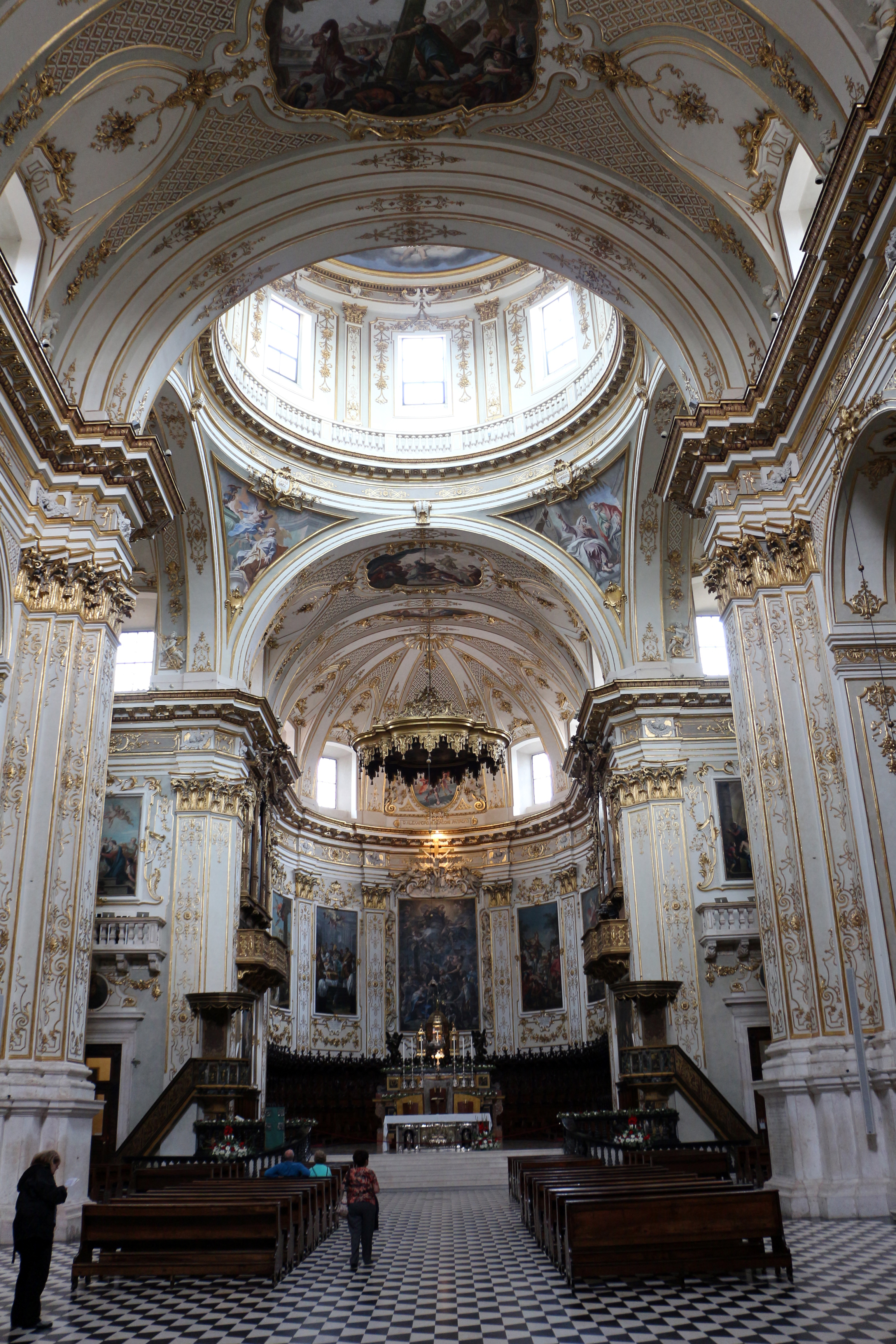 Duomo (Bergamo) - Inside